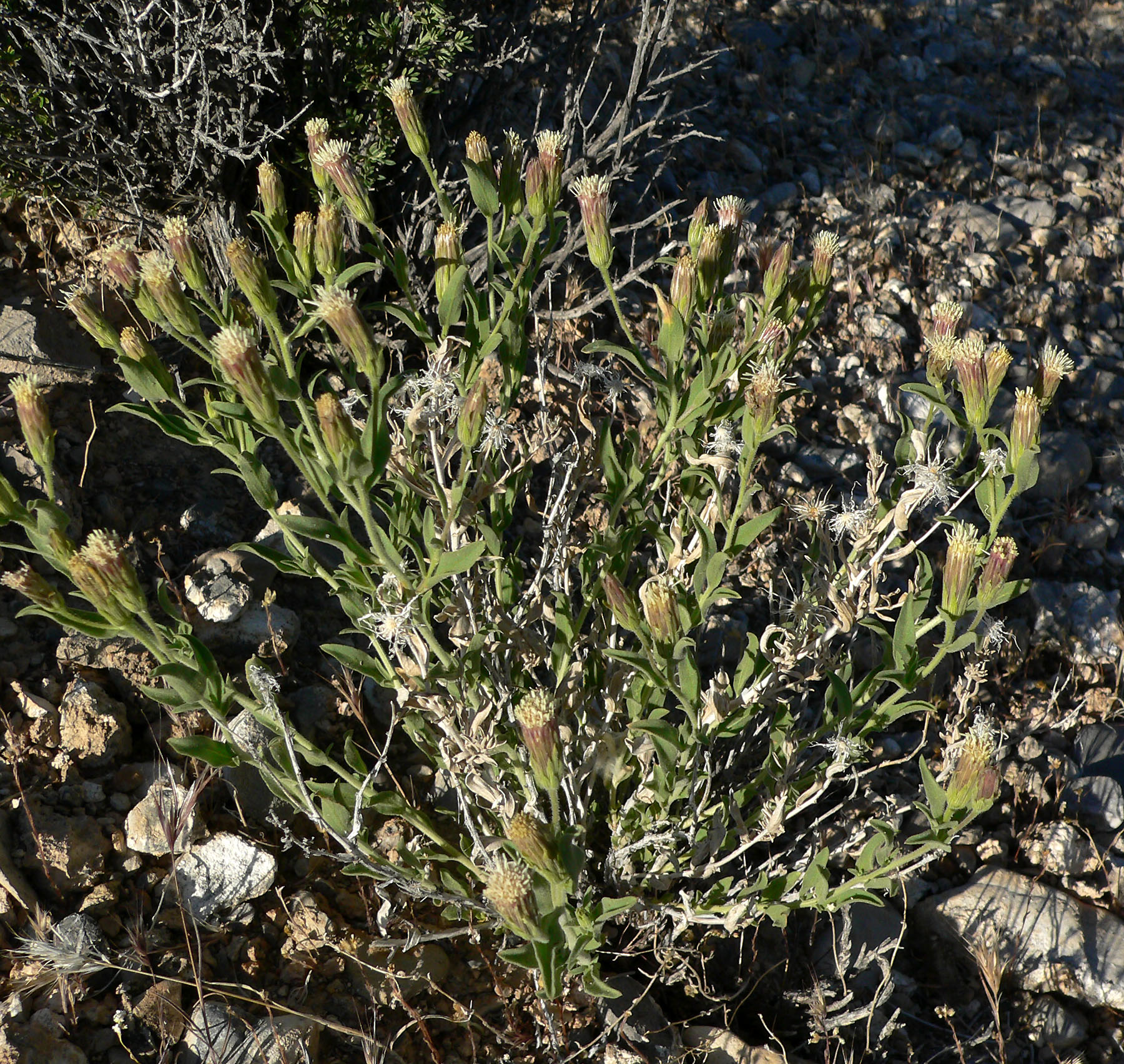 Brickellia oblongifolia var. linifolia in Kyle Canyon, Spring Mountains, southern Nevada